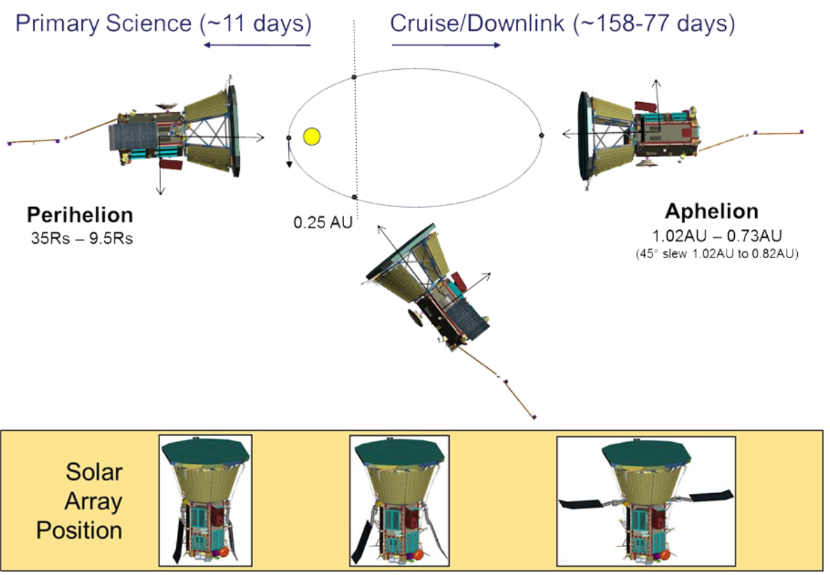 Parket Solar Probe (NASA) Concept of Operations